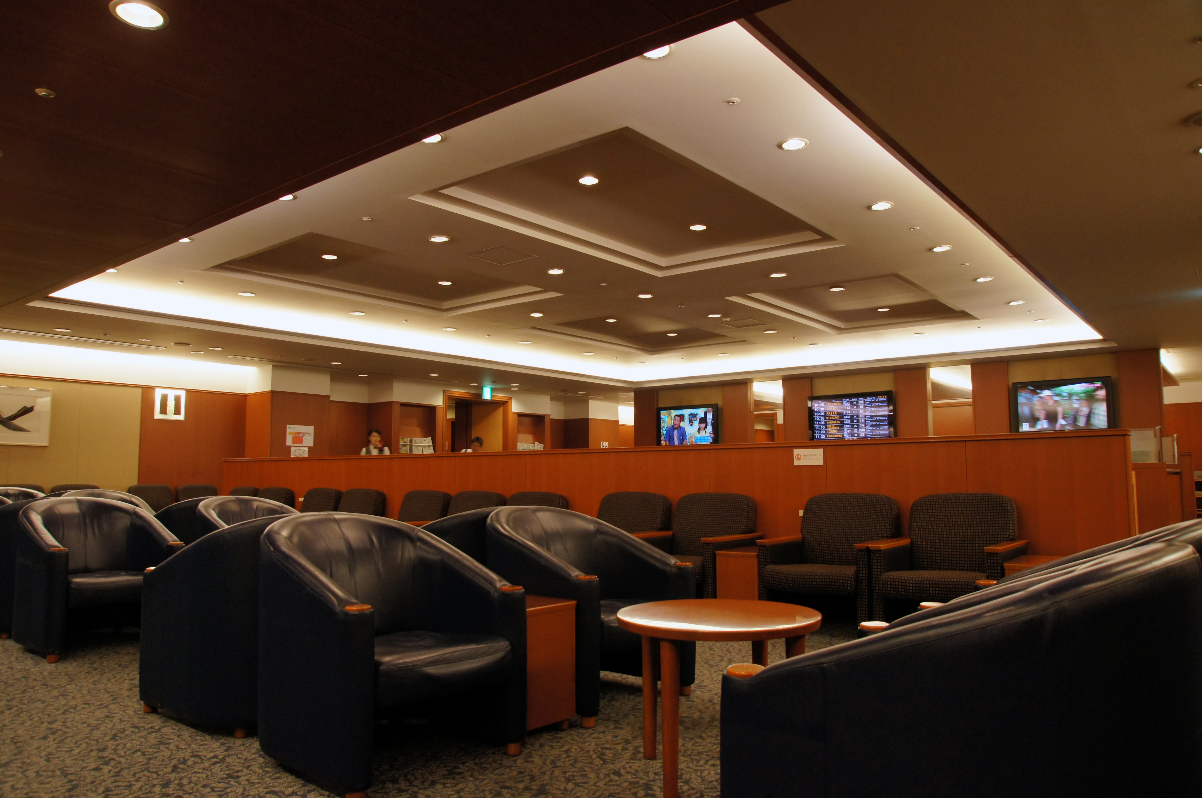 SAKURA Lounge of Osaka International Airport in Itami, Hyogo prefecture, Japan